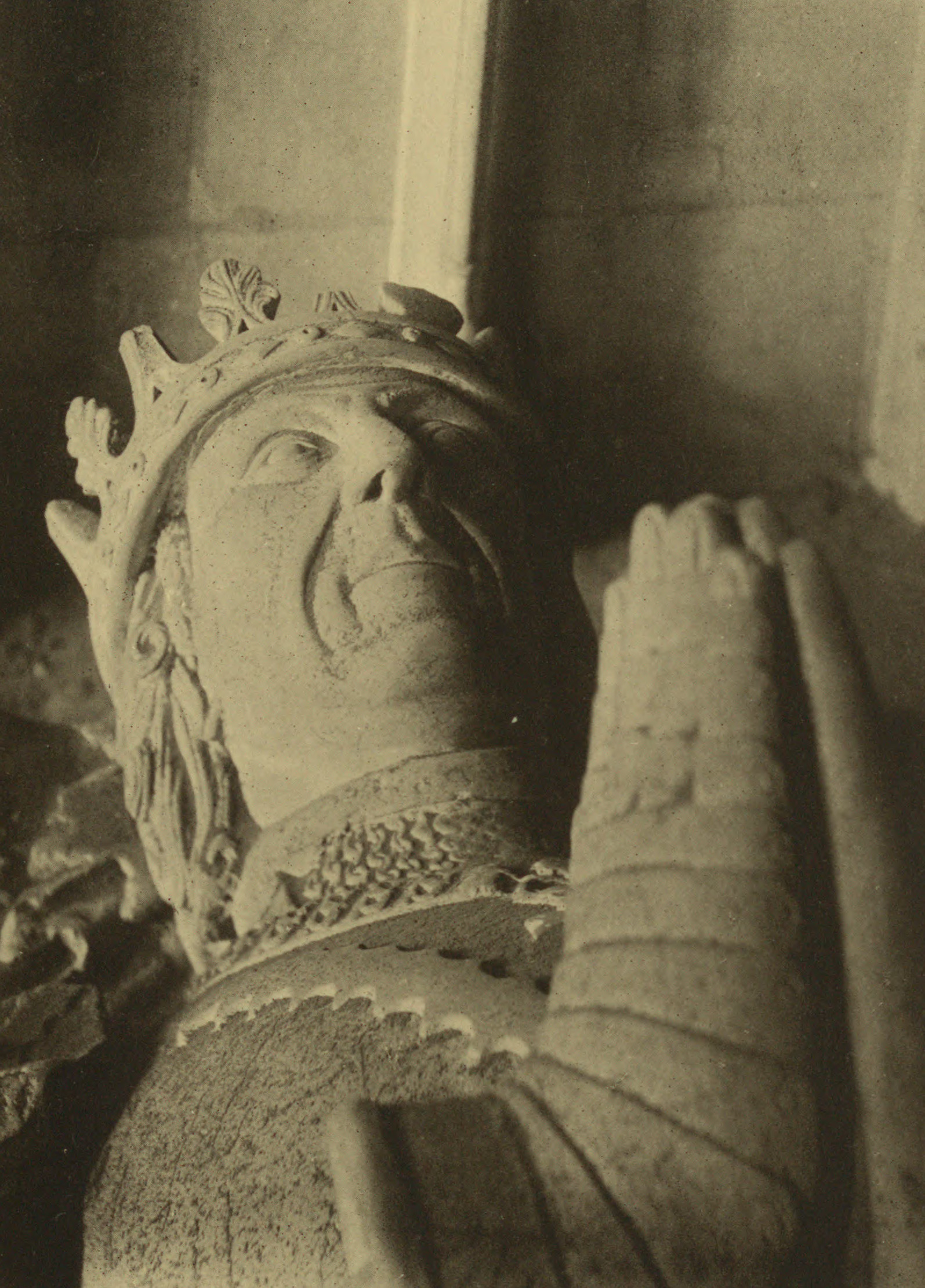 Monumental effigy of John Tiptoft, Earl of Worcester at Ely Cathedral